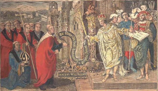 Lambert Barnard (1485 - 1567), created Chichester Cathedral's Tudor paintings by command of Robert Sherborne Bishop of Chichester in 1519. They are believed to be the largest surviving paintings of their kind, the two huge painted panels (14ft x 32ft) are on display in the transepts of the Cathedral, from which this copy, an engraving by T.King Drawing Master Chichester October 1807, was taken. It shows Wifrid receiving a charter from King Caedwella